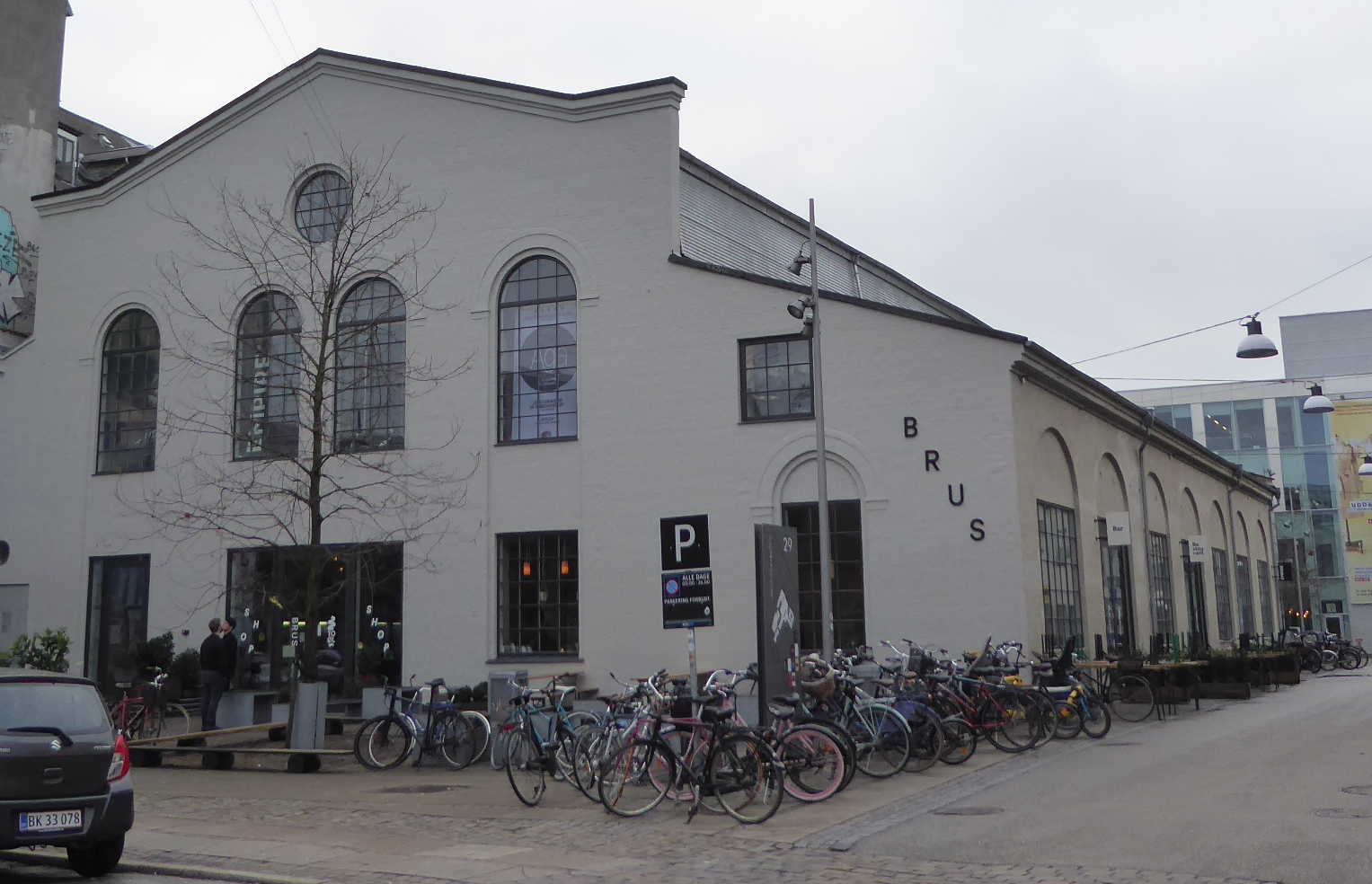 The pub and brewery Brus at Guldbergsgade in Nørrebro in Copenhagen.